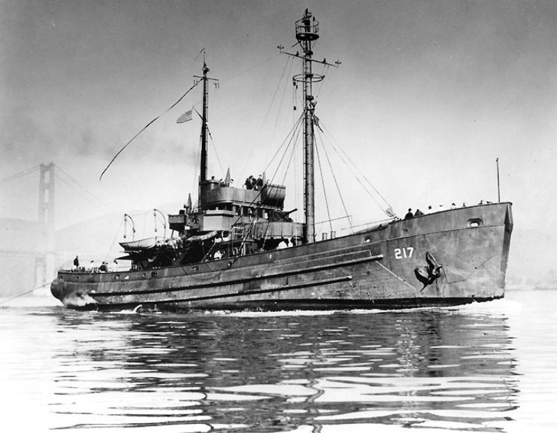 USS ATA-217 underway in San Francisco Bay, while returning from service in the Pacific, circa early 1946. Note the "homeward bound" pennant flying from her mainmast.